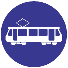 Luxembourg road sign diagram